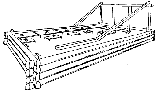 Sketch of Barents' wintering